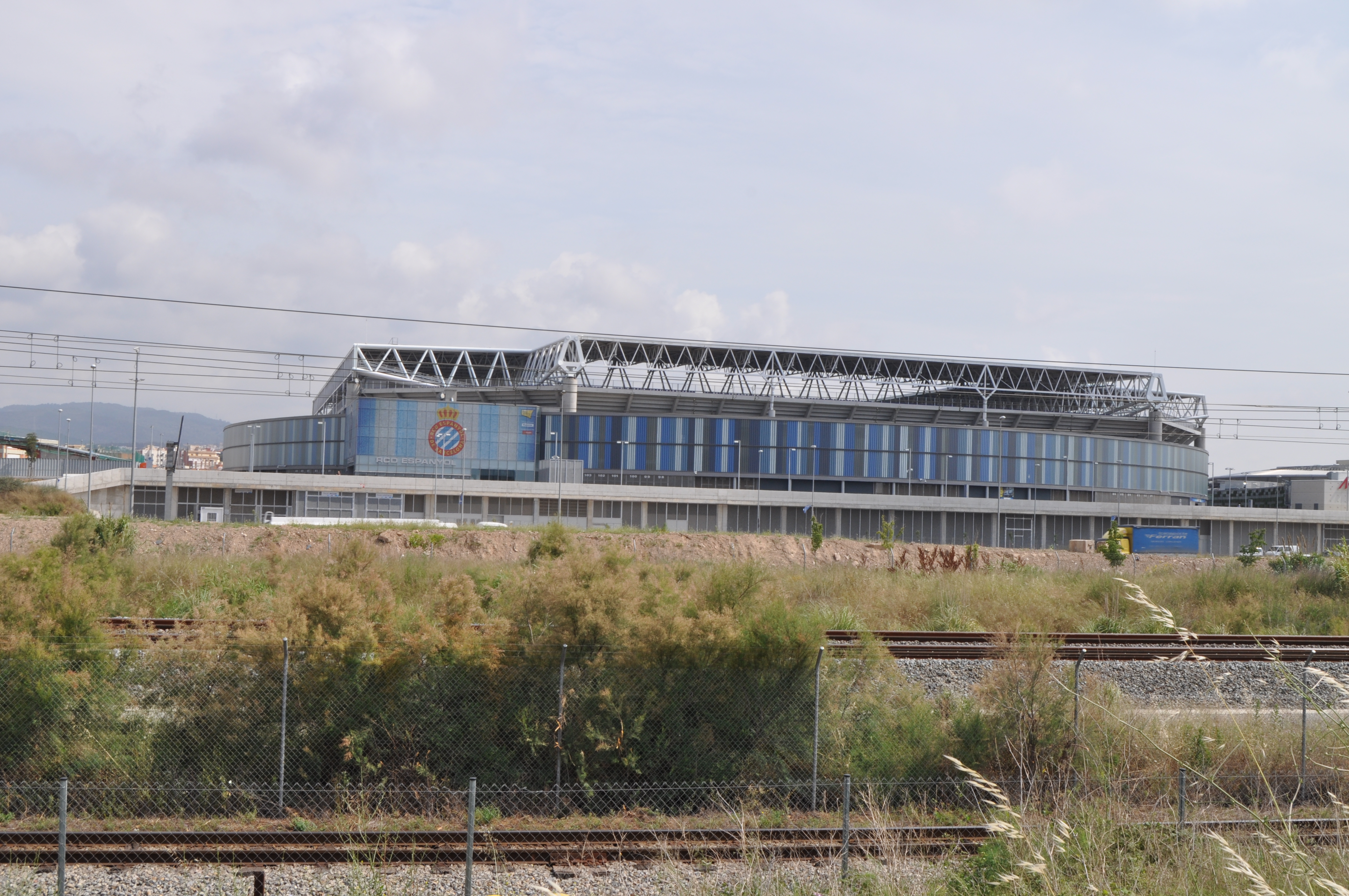 Estadi Cornellà-El Prat.